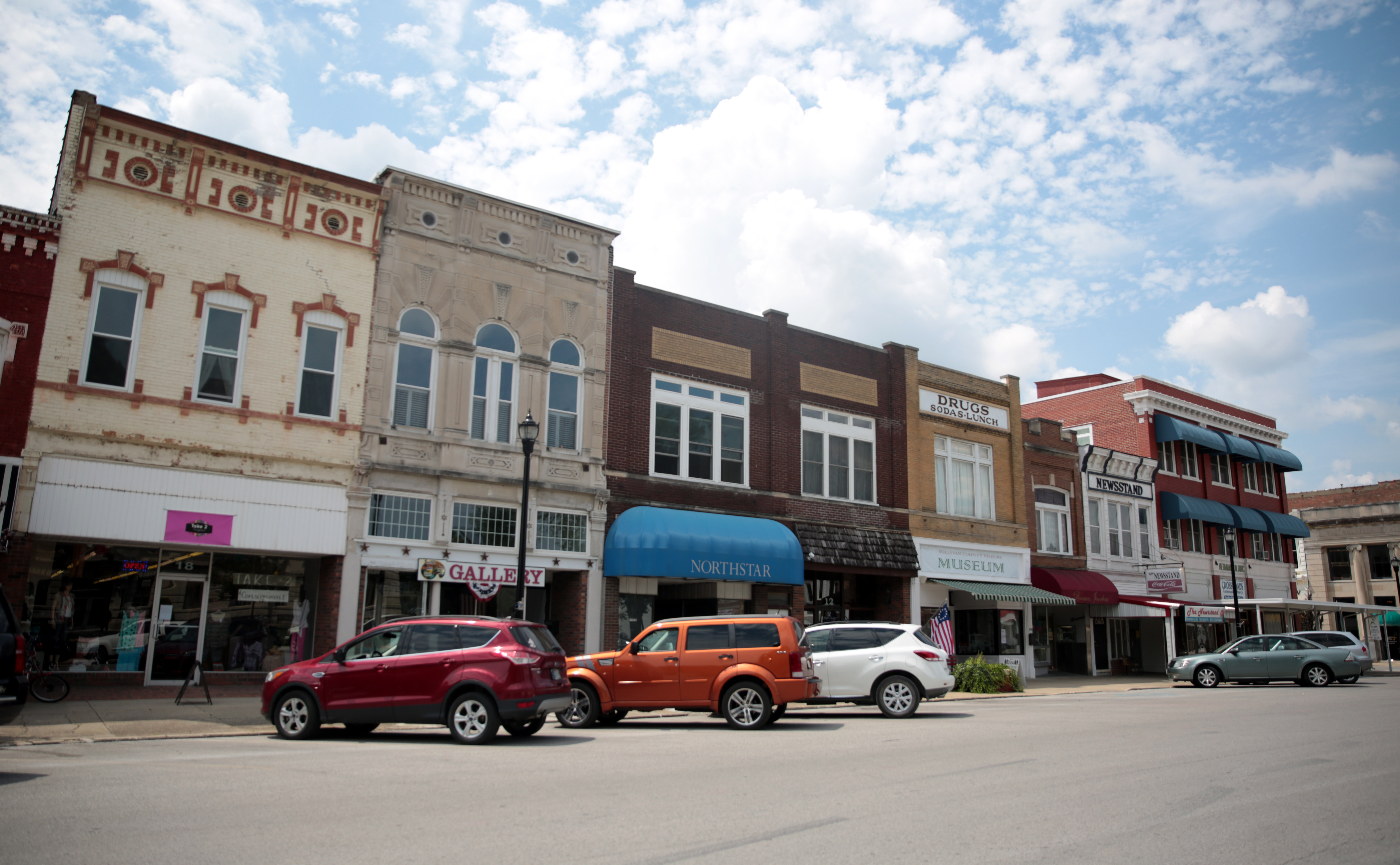 Sullivan, Indiana square on Court Street.